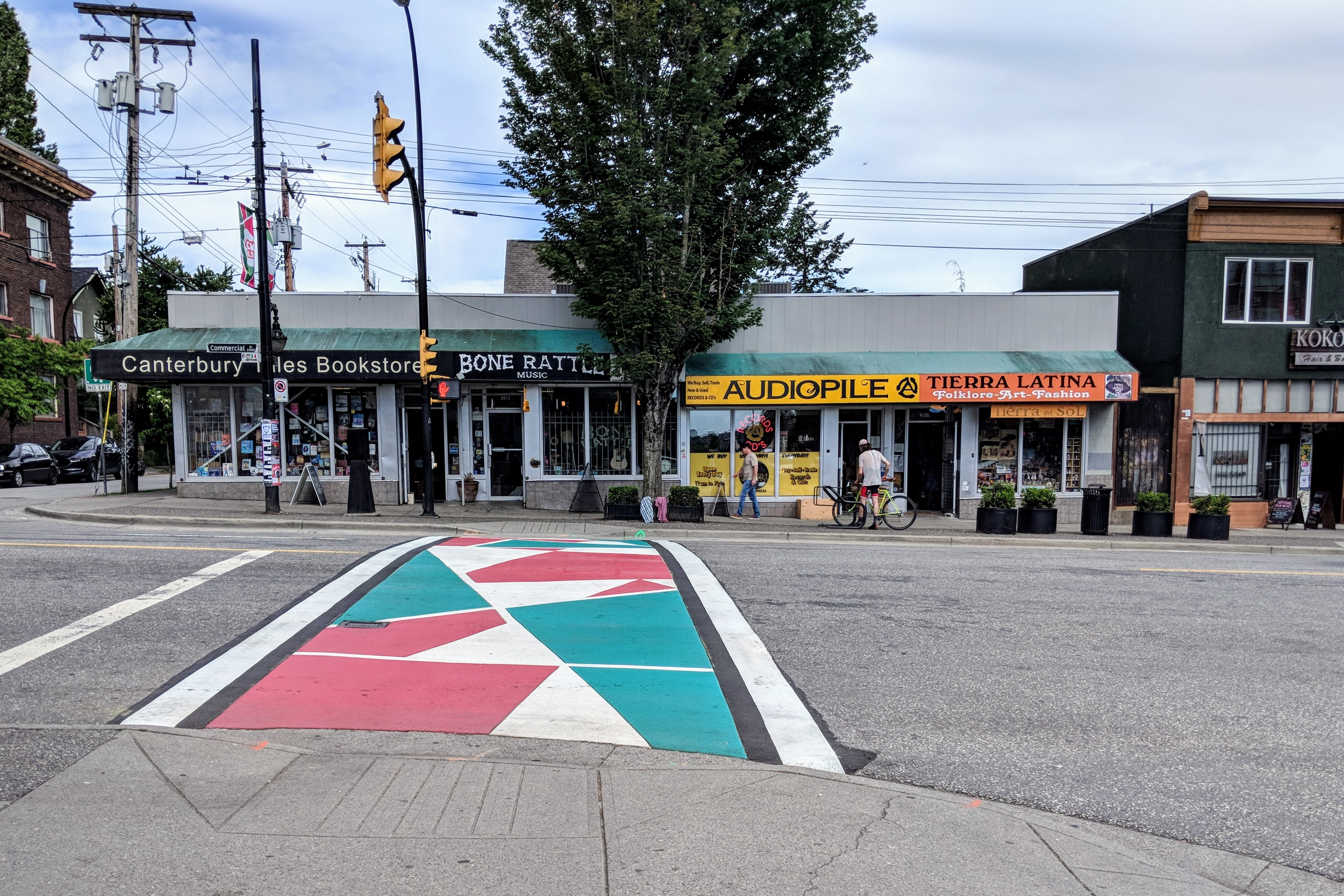 East 4th Avenue and Commercial Drive in the Grandview–Woodland neighbourhood of Vancouver, Canada. June 2019.